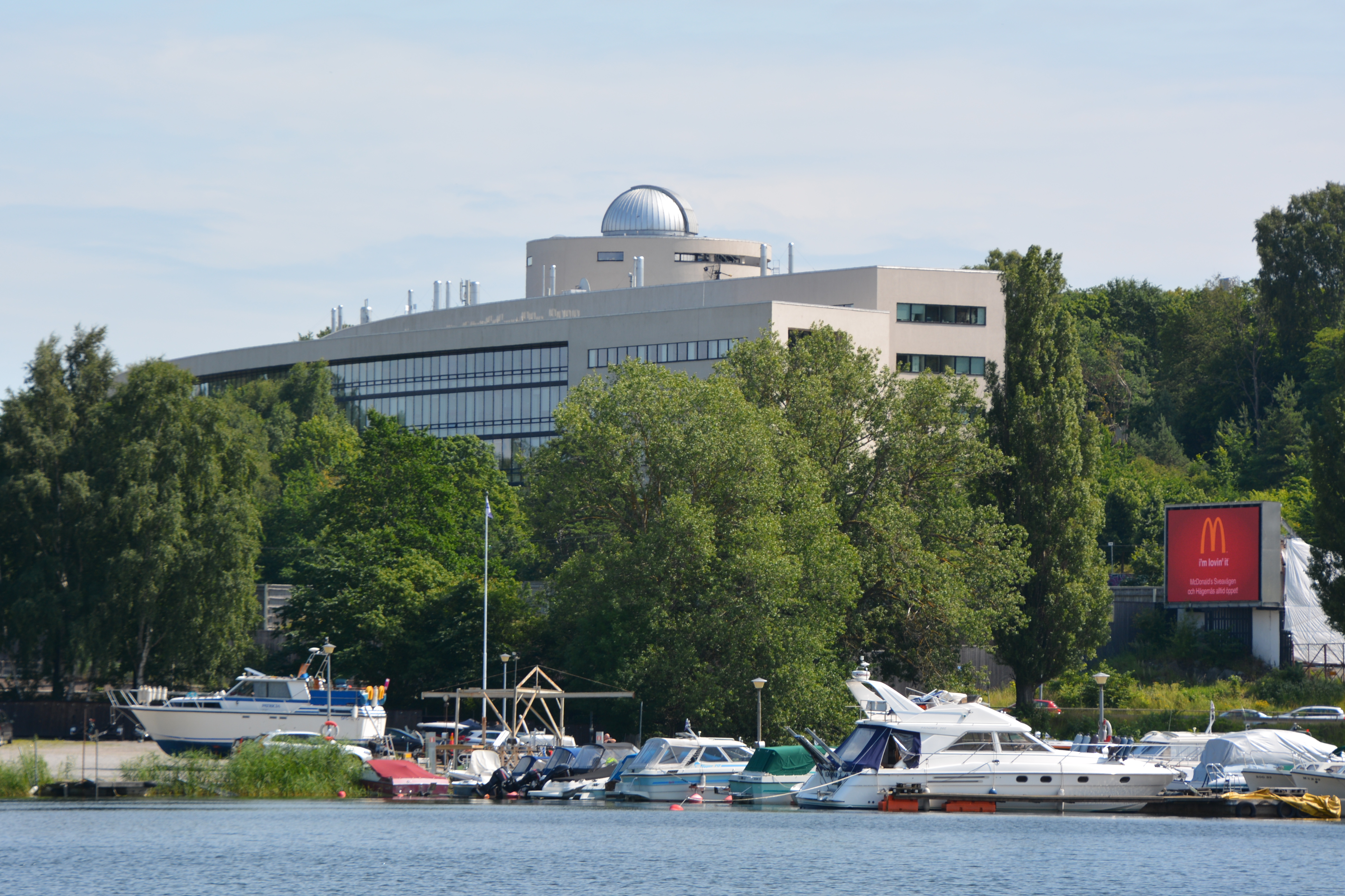 Alba Nova, seen from Brunnsviken